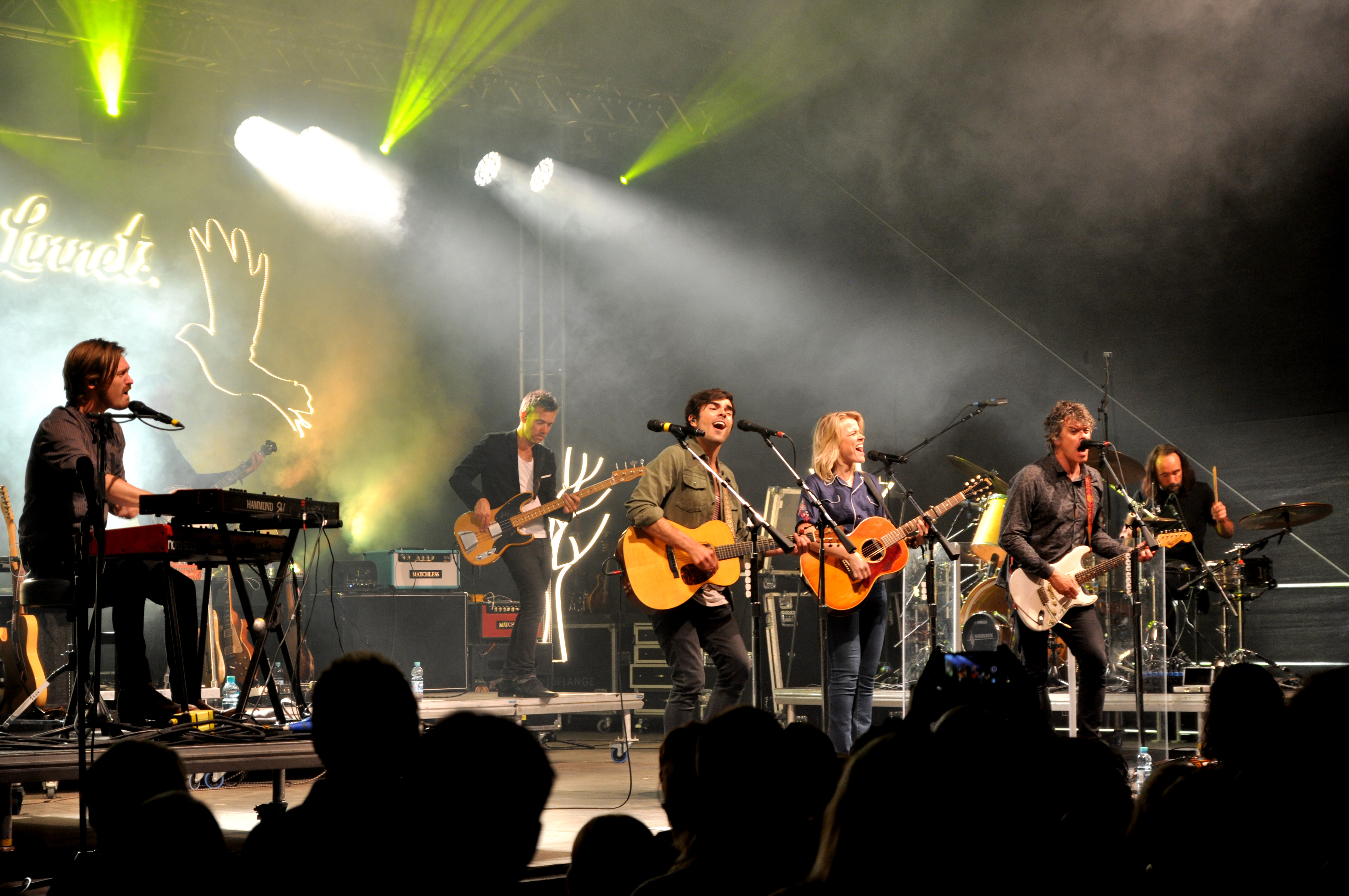 The Common Linnets (NLD/USA) appearance at the 2017 blacksheep festival at Bonfeld castle, Bad Rappenau, Baden-Wuerttemberg, Germany Festivalsommer This photo was created with the support of donations to Wikimedia Deutschland in the context of the CPB project "Festival Summer".